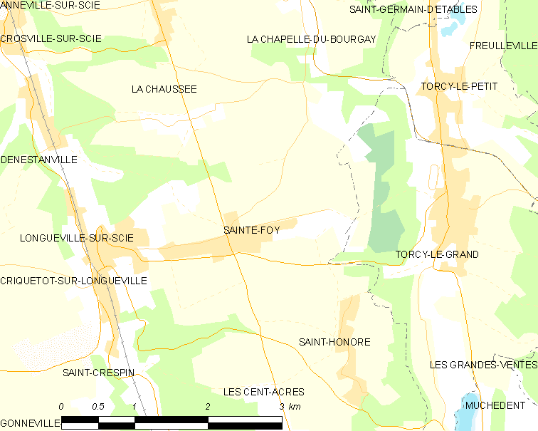 Map of French municipality Sainte-Foy